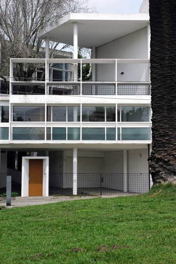 Casa Curutchet — Modernist house by Le Corbusier, in La Plata - Argentina.